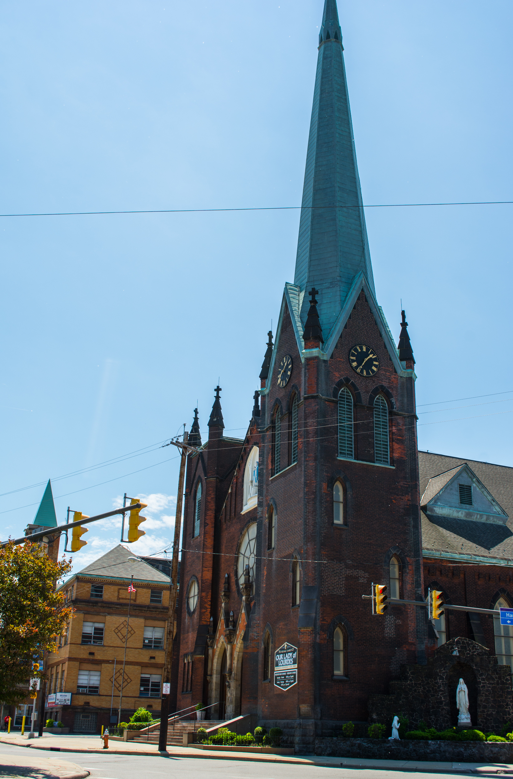 Our Lady of Lourdes Church at 3395 E. 53rd Street in Cleveland, Ohio, in the United States. The parish dates to 1883, but the Gothic Revival church, designed by architects Emile Ulrich and Bernard Van De Velde, did not begin construction until 1891. It is a contributing building to the Broadway Avenue Historic District.